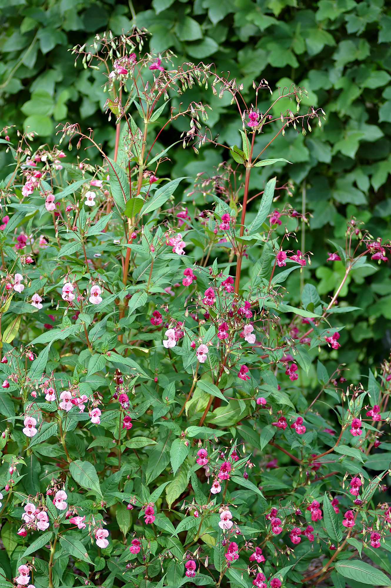 This image shows a few Himalayan Balsam plants (Impatiens glandulifera).